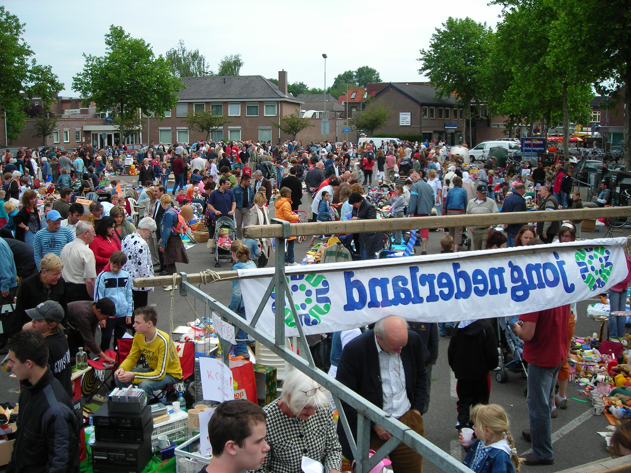 The yearly Jong Nederland flea market in Gennep, The Netherlands